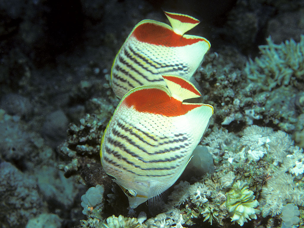 Chaetodon paucifasciatus, Eritrean butterflyfish. Underwater photograph, Sharm el Sheik, Egypt, Red Sea.